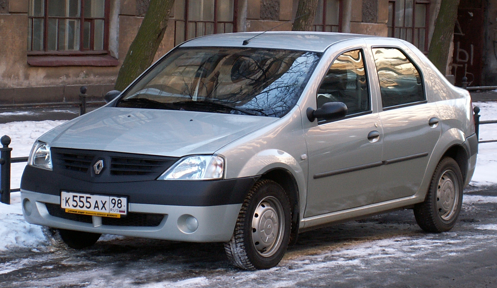 Renault Logan (side view) near SPIIRAS